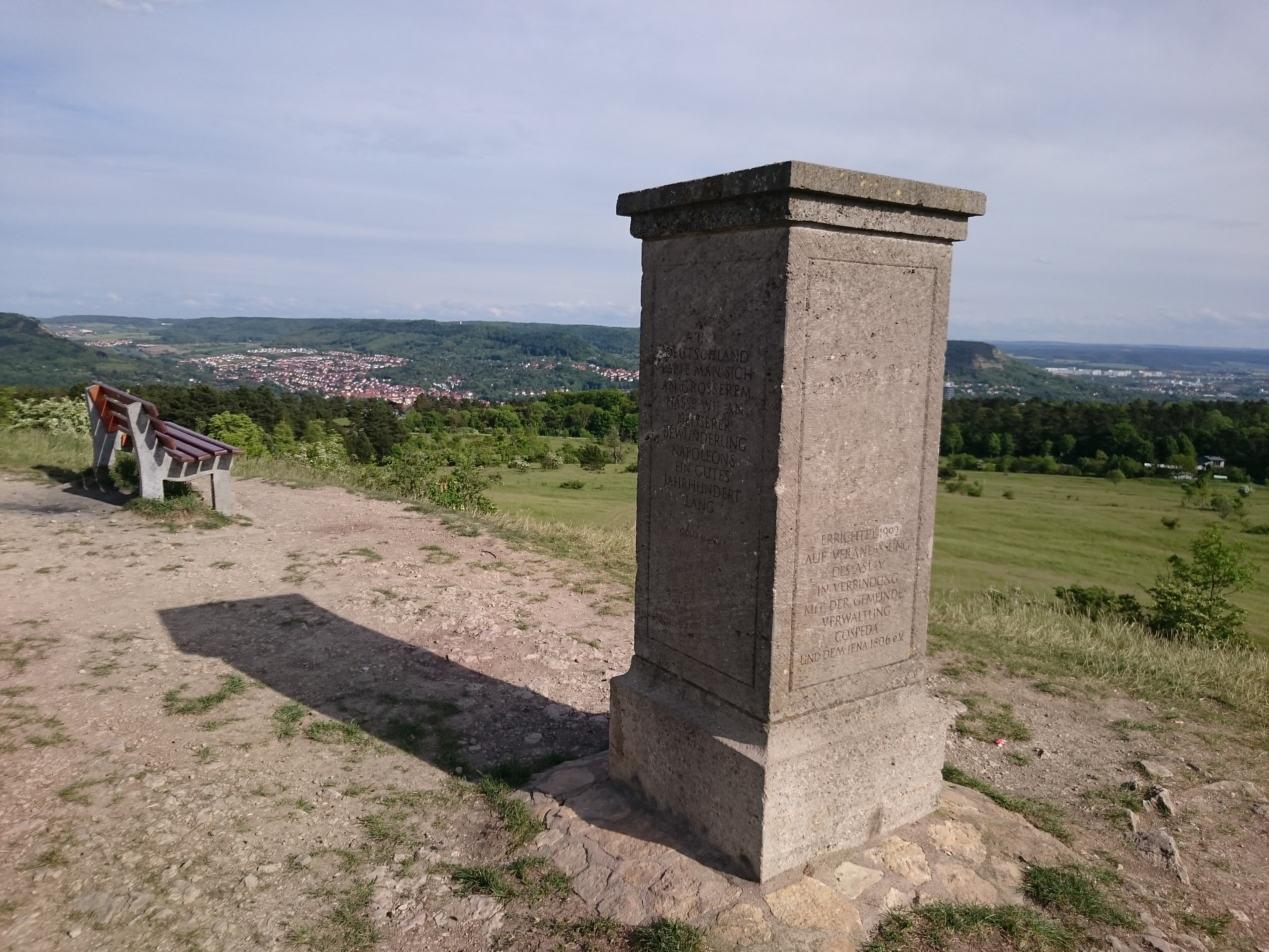 The "Napoleonstein", a war monument referring to the fourth coalition war in 1806. Located at the "Windknollen" near Jena, Germany.